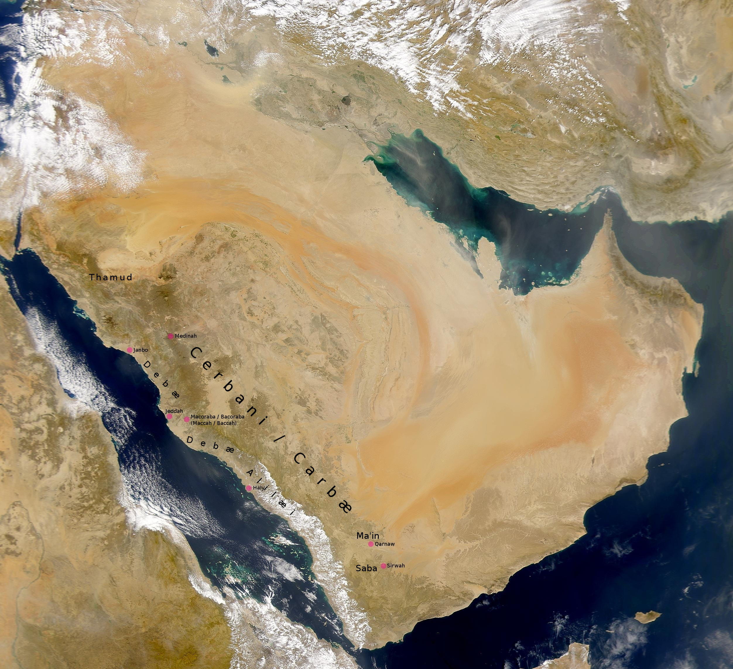 SeaWiFS collected this view of the Arabian Peninsula and of dust blowing across the Persian Gulf. + tribes described by Diodorus, Pliny, Ptolemy